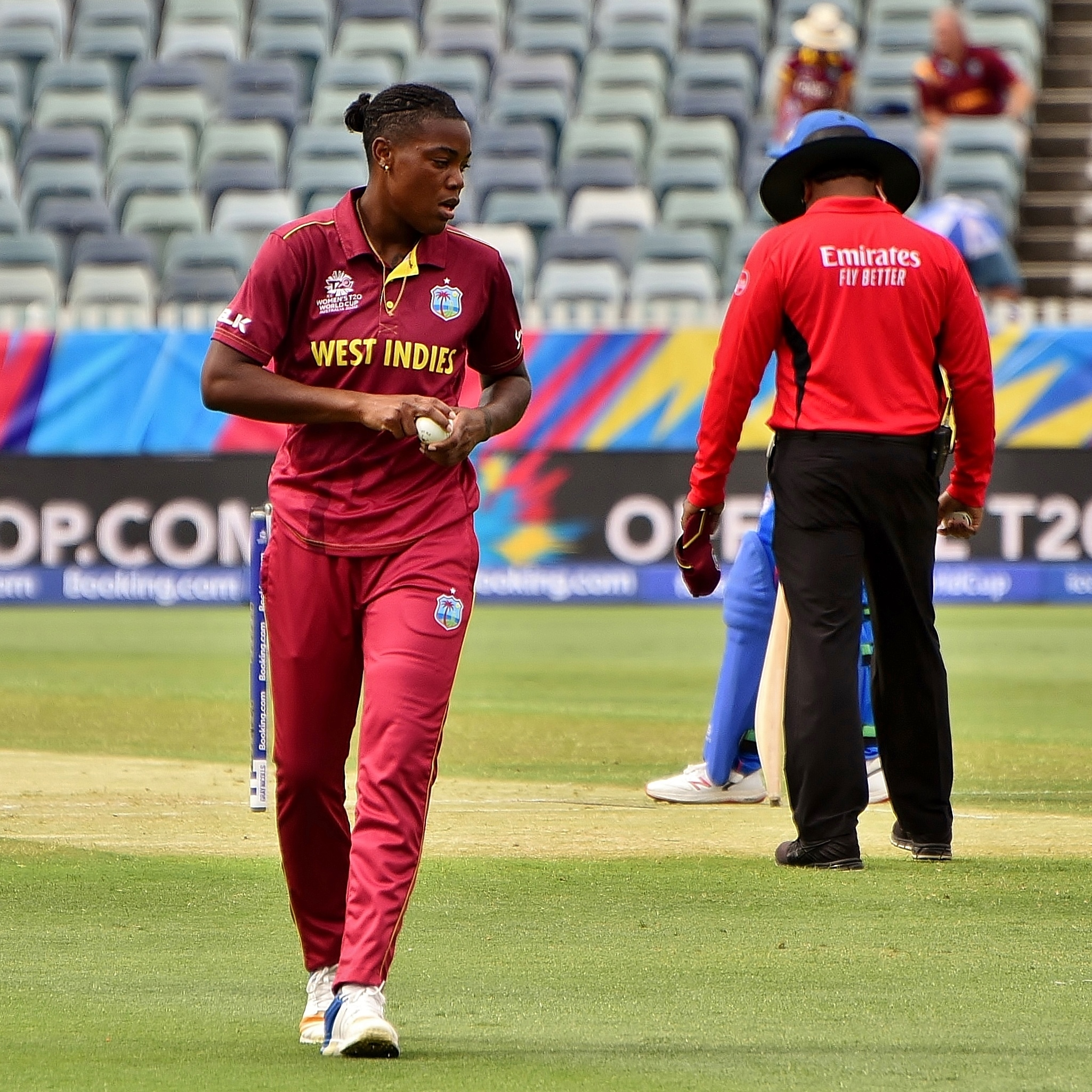 Chinelle Henry walking back to her mark while bowling for the West Indies against Thailand during their 2020 ICC Women's T20 World Cup match at the WACA Ground in Perth, Australia